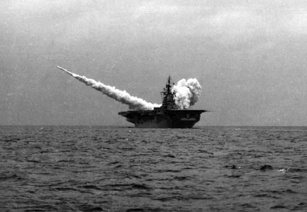 A U.S. Navy SSM-N-8 Regulus missile launch from the aircraft carrier USS Princeton (CVA-37) which did not deploy with the missile but conducted the first launch of a Regulus from a warship.